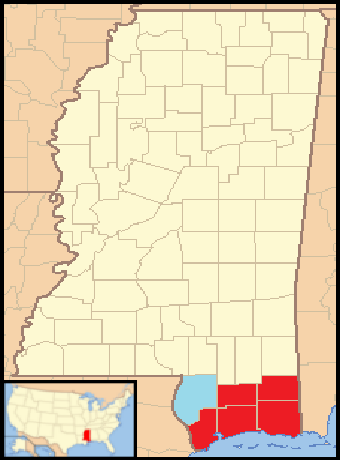 Location of five Mississippi coastal counties, plus sixth county included geographically but not in MSA.